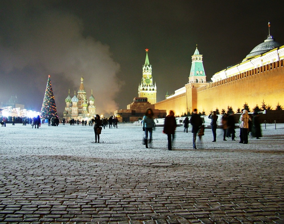 The Red Square at Christmas